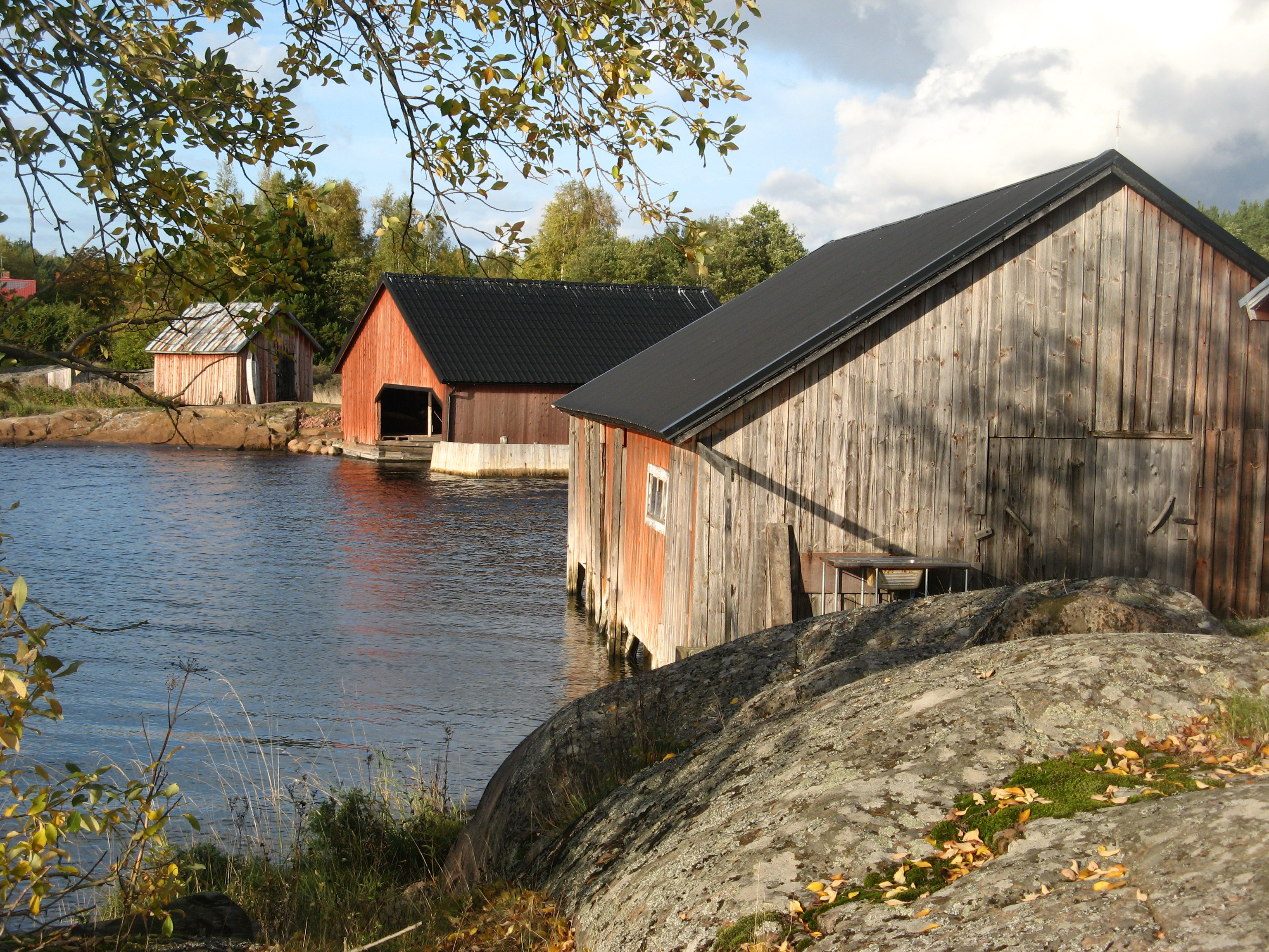 Boathouses, Västra Simskäla in Vårdö, Åland, Finland